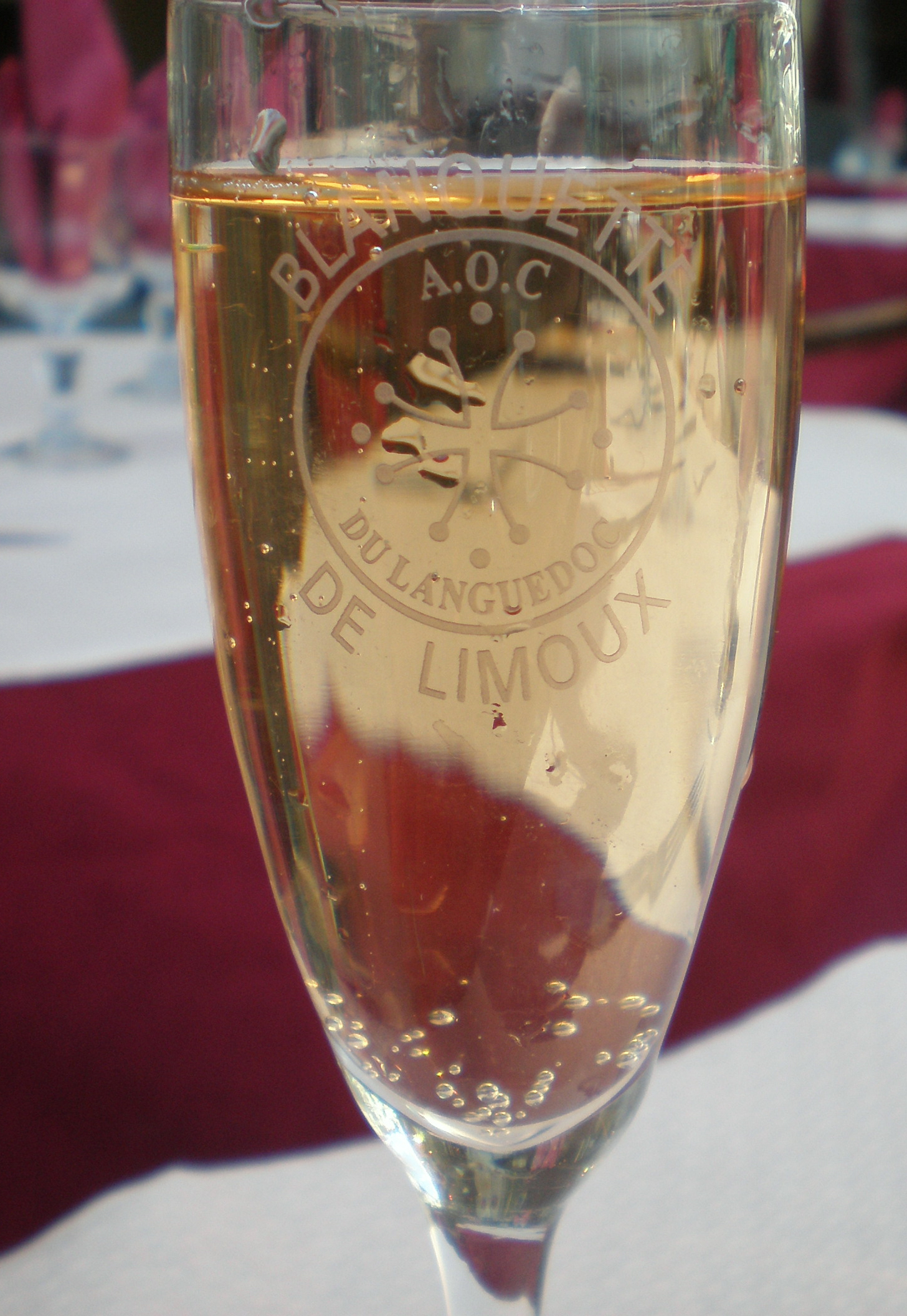 A glass of sparkling wine from the Languedoc wine region of France